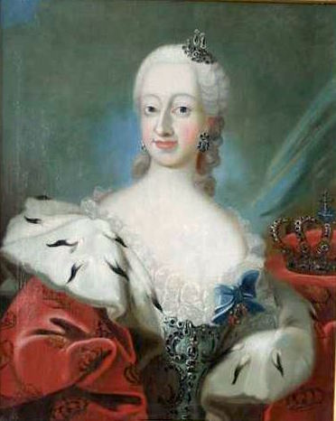 Danish Norwegian Queen Juliana Maria of Brunswick-Wolfenbüttel (1729-1796)